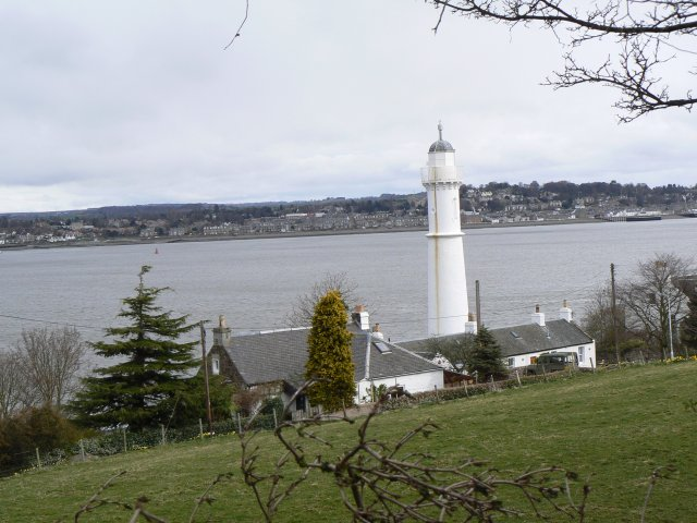 West light